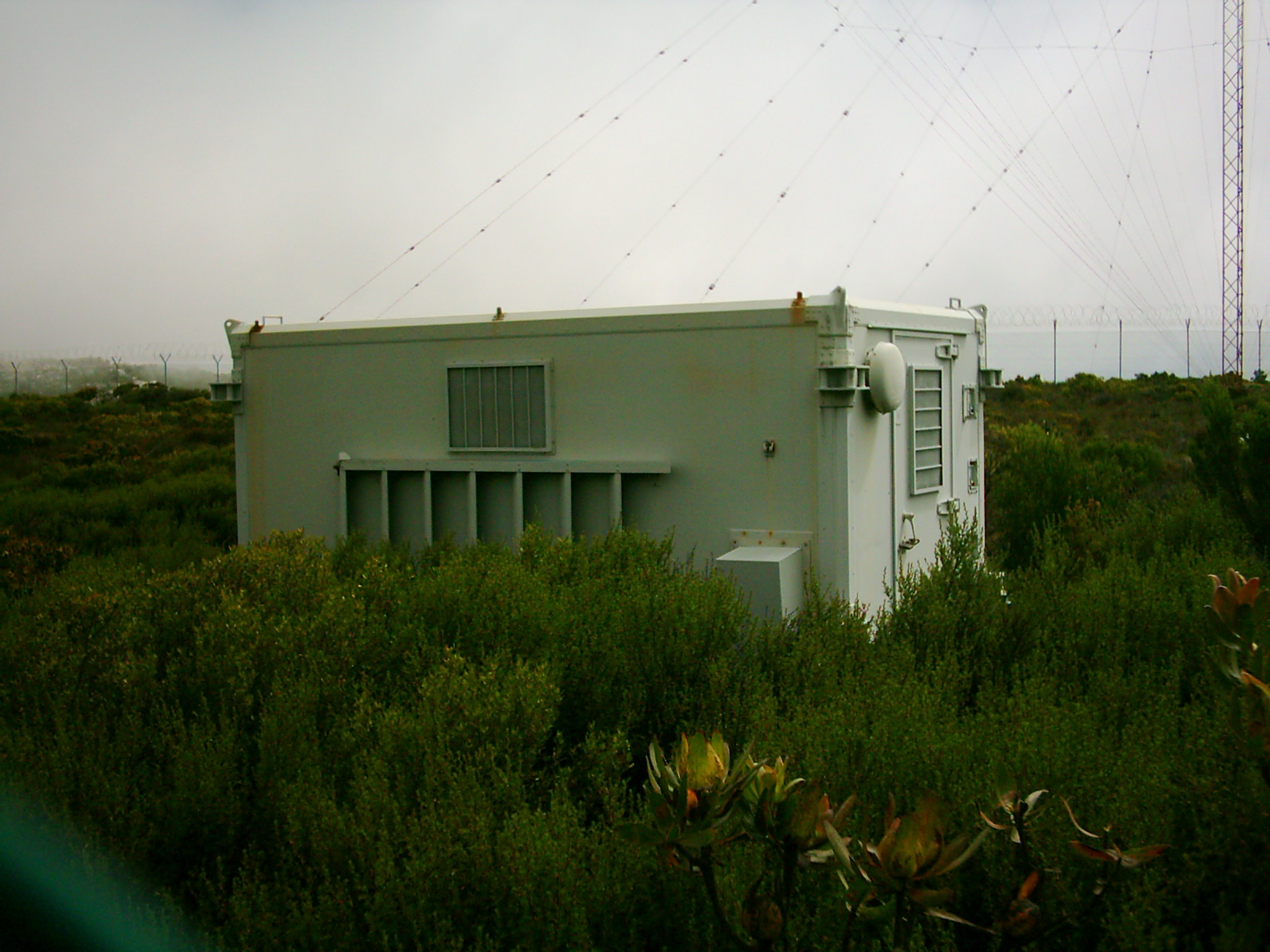 Control bunker for antenna 3 and 4 in former Echelon intelligence gathering station at Silvermine, Cape Peninsula